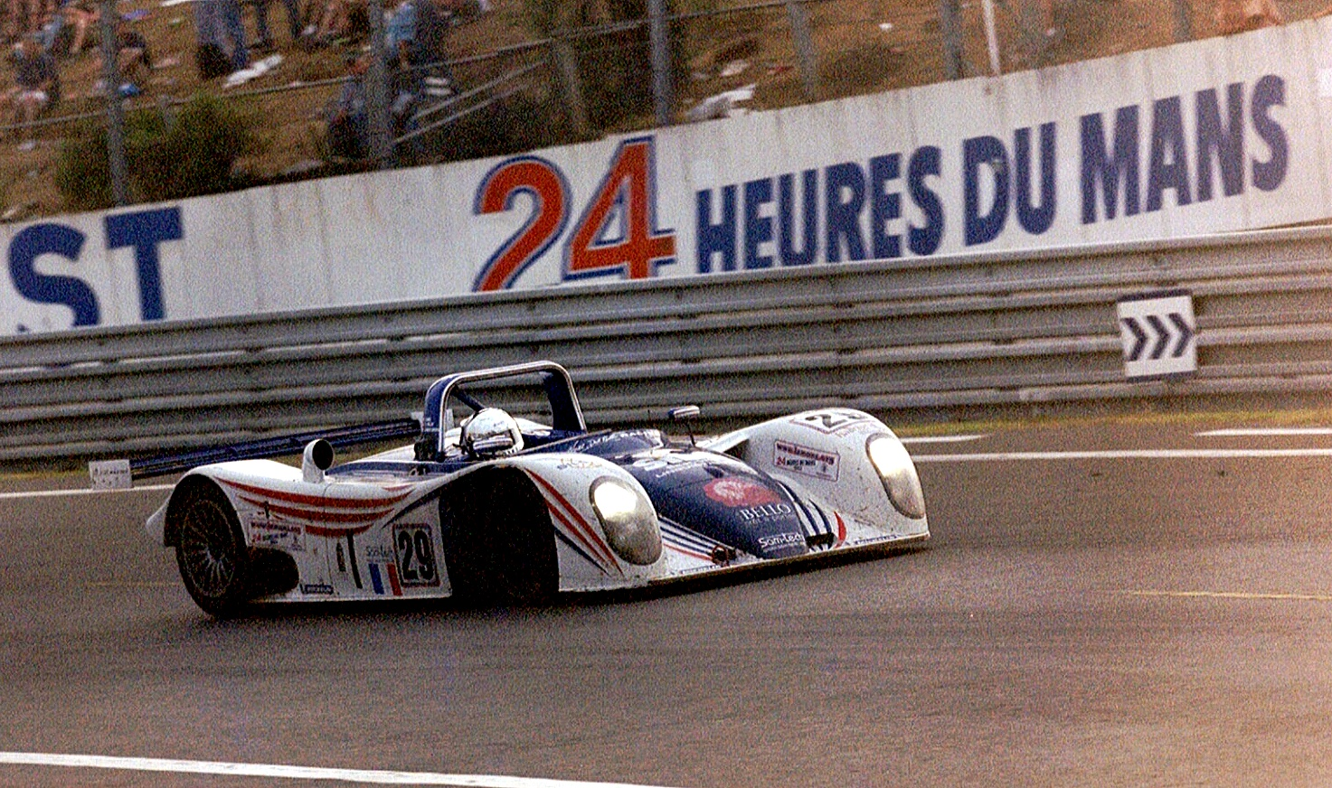 Reynard 2KQ Prototype at the 2003 24 Hours of Le Mans